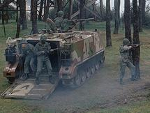 M106 mortar carrier_outline